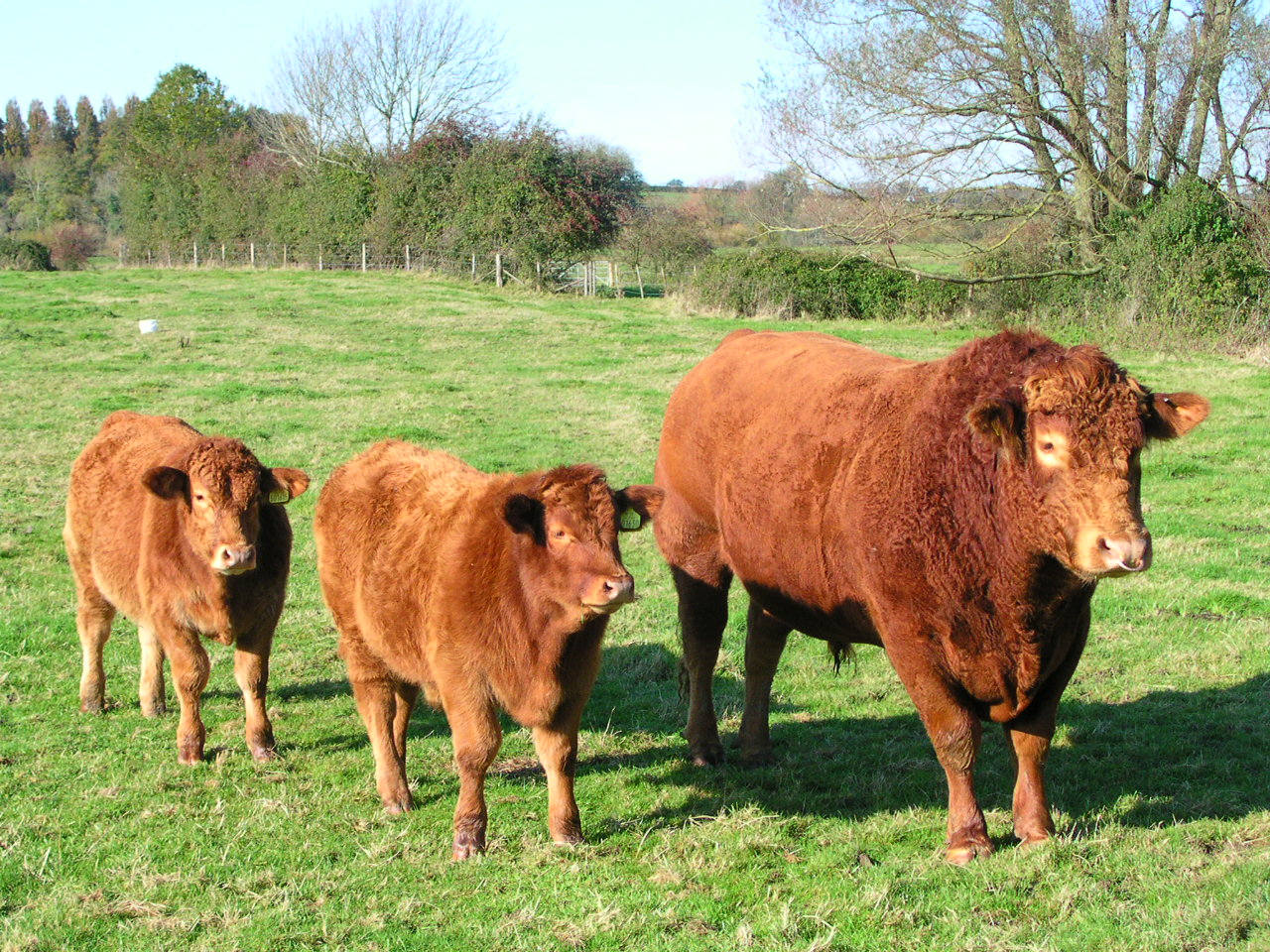 A South Devon bull and calves at Amberley, West Sussex, England